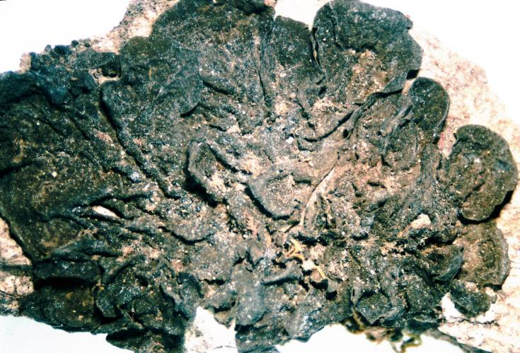 Collema furfuraceum (Arnold) Du Rietz, 1929 (photograph of a herbarium specimen taken through a dissecting microscope (x6) showing broad lobes with conspicuous ridges and pustules) Growing at the base of a deciduous tree trunk along the bank of Terrapin Run, just S of Scenic Route 40, Allegany County, Maryland, USA; collected and identified by A. Norden and B. Ball (No. 401, 14 Aug 1973); specimen is now in the Lichen Herbarium of the New York Botanical Garden.